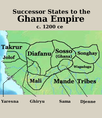 Map of the successor states of the Ghana Empire, on the upper Niger river valley, West Africa, circa 1200 Common Era. These outlines are approximate, and should not suggest modern states with fixed borders. States in this era were centered around cities and strong places, with variations of influence radiating out from these points. C. 1200 on the eve of the rise of the Mali Empire, usually dated in the 1240s CE.